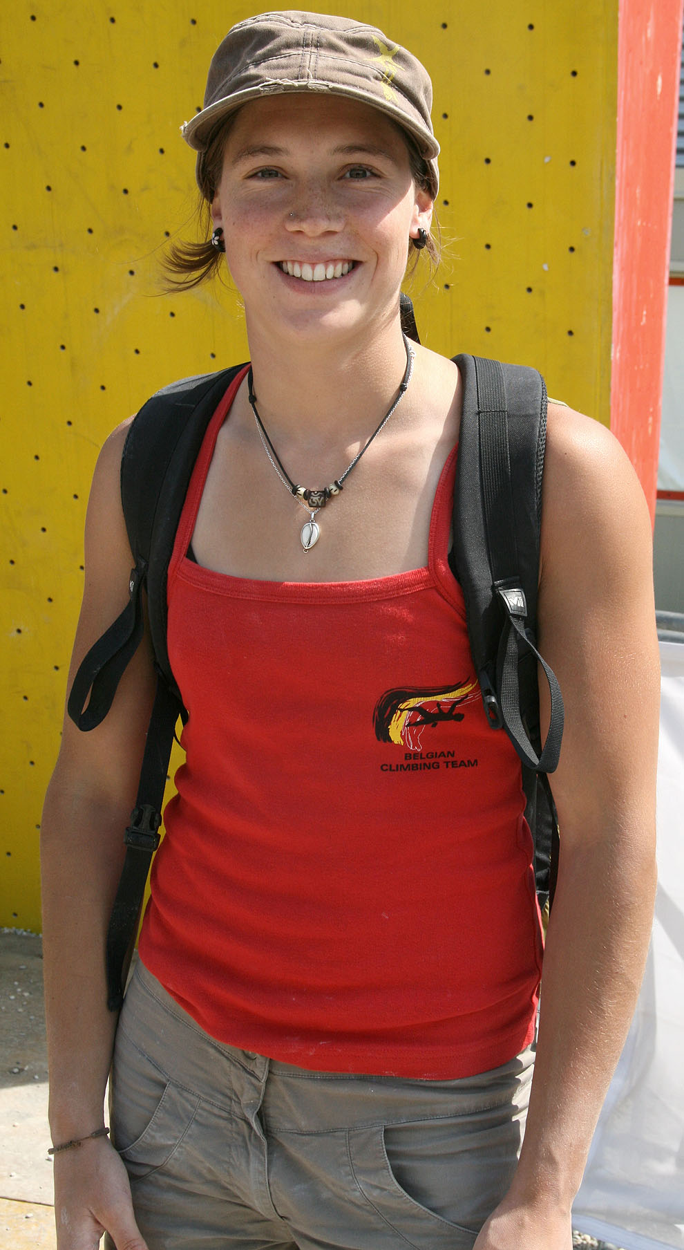 Chloé Graftiaux during the semi-finals at the IFSC Boulder Worldcup Vienna 2010.